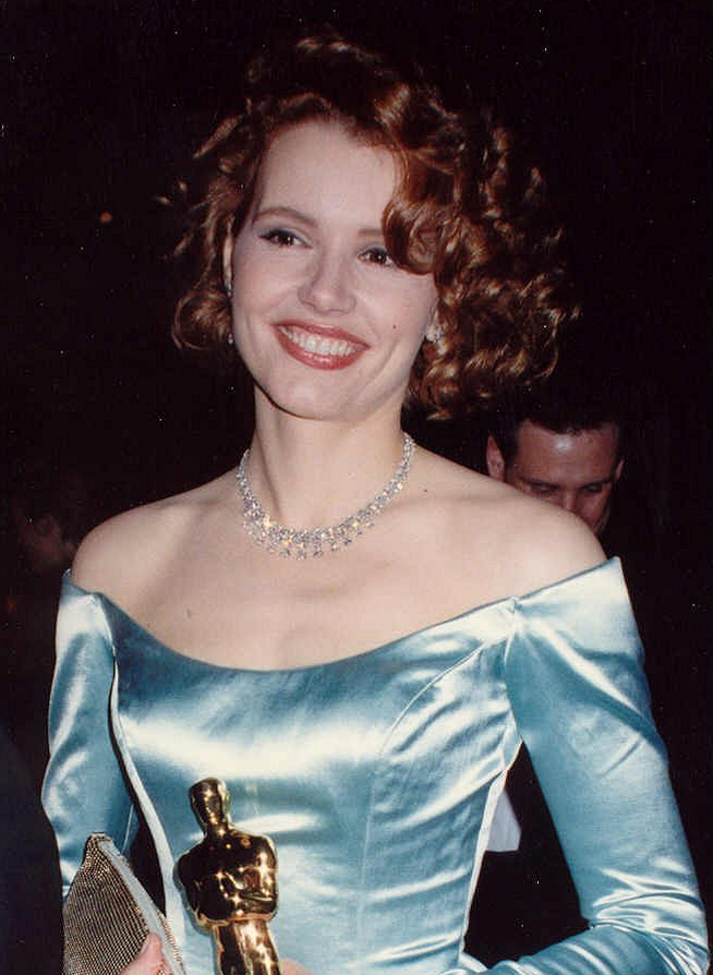 Geena Davis at the 1989 Academy Awards, cropped.